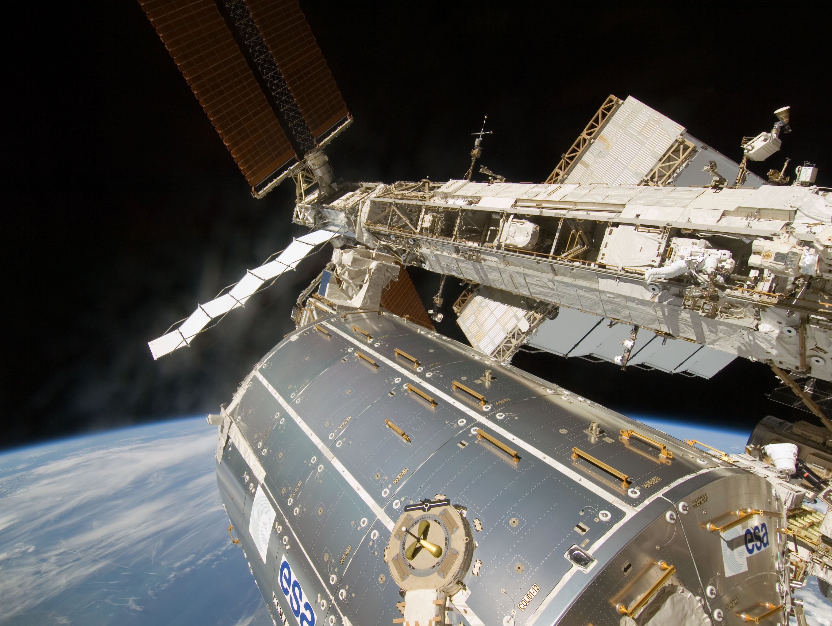 Astronaut Ron Garan, STS-124 mission specialist, participates in the mission's third scheduled session of extravehicular activity (EVA) as construction and maintenance continue on the International Space Station. During the six-hour, 33-minute spacewalk, Garan and astronaut Mike Fossum (out of frame), mission specialist, exchanged a depleted Nitrogen Tank Assembly for a new one, removed thermal covers and launch locks from the Kibo laboratory, reinstalled a repaired television camera onto the space station's left P1 truss, and retrieved samples of a dust-like substance from the left Solar Alpha Rotary Joint for analysis by experts on the ground. The Columbus laboratory is visible in the foreground. The blackness of space and Earth's horizon provide the backdrop for the scene.